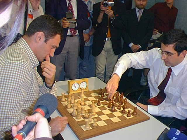 Vitali Klitschko - Vladimir Kramnik, Dortmunder Schachtage 2002, Photographer Gerhard Hund.